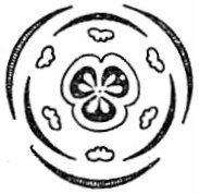 Diagram of the symmetrical trimerous flower of fritillary (Fritillaria).